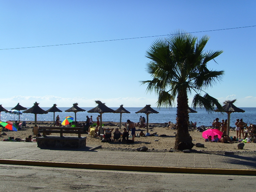 Main beach of Miramar